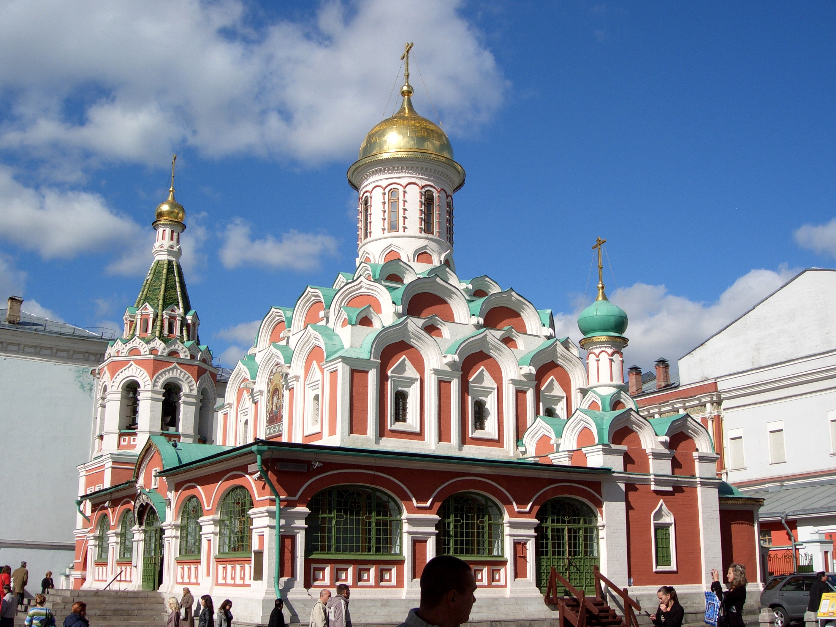 Rebuilt in 1993 from plans kept in secret after Stalin had the original bulldozed.